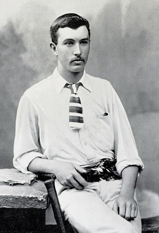 Sport, Cricket, Circa 1895, William Bruce, Victoria, (1882-1894) and Australia, (1884-1895).